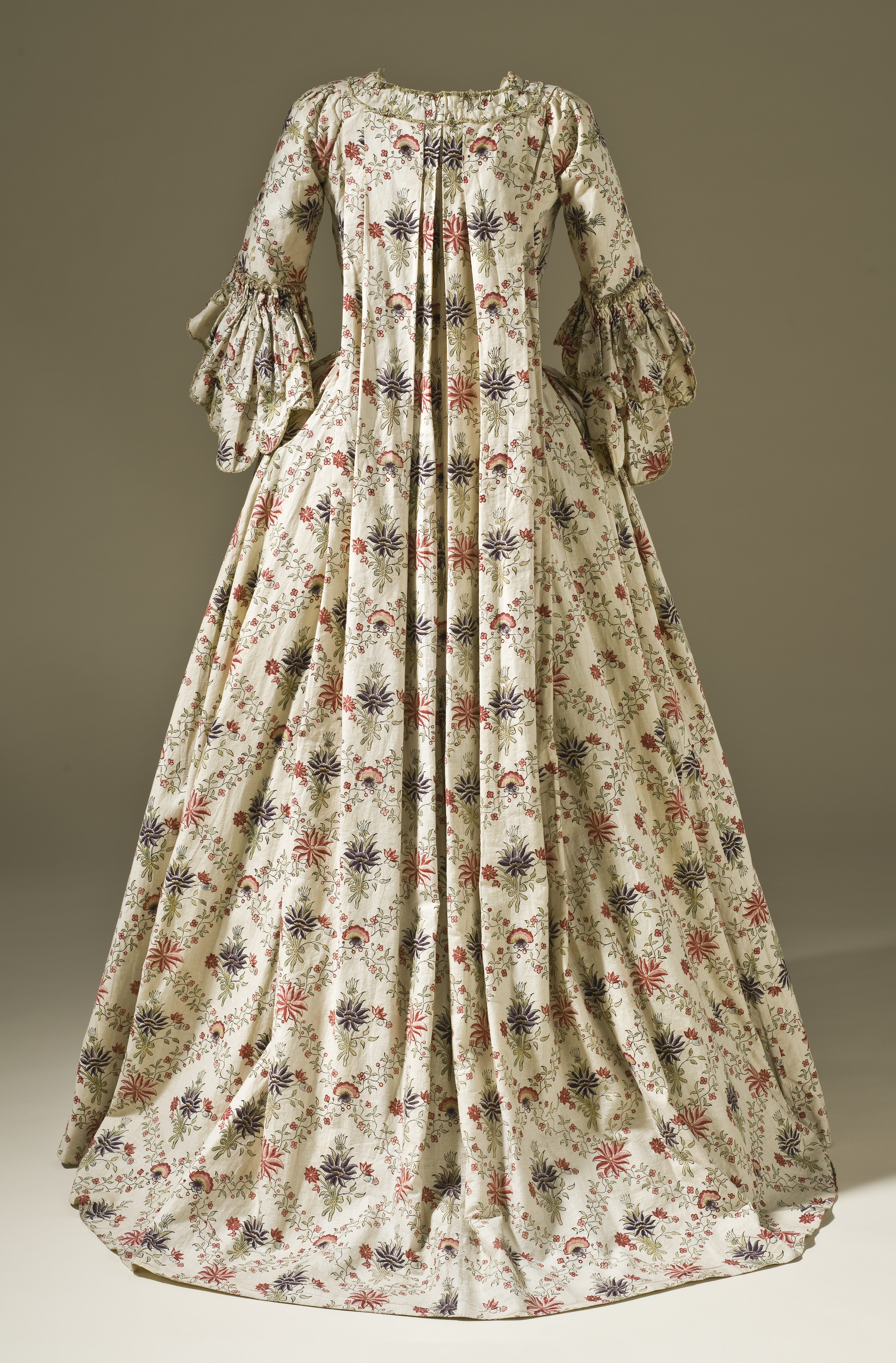 France Woman’s Robe à la Française, circa 1770. Cotton plain weave, block-printed and dye-painted, with silk passementerie